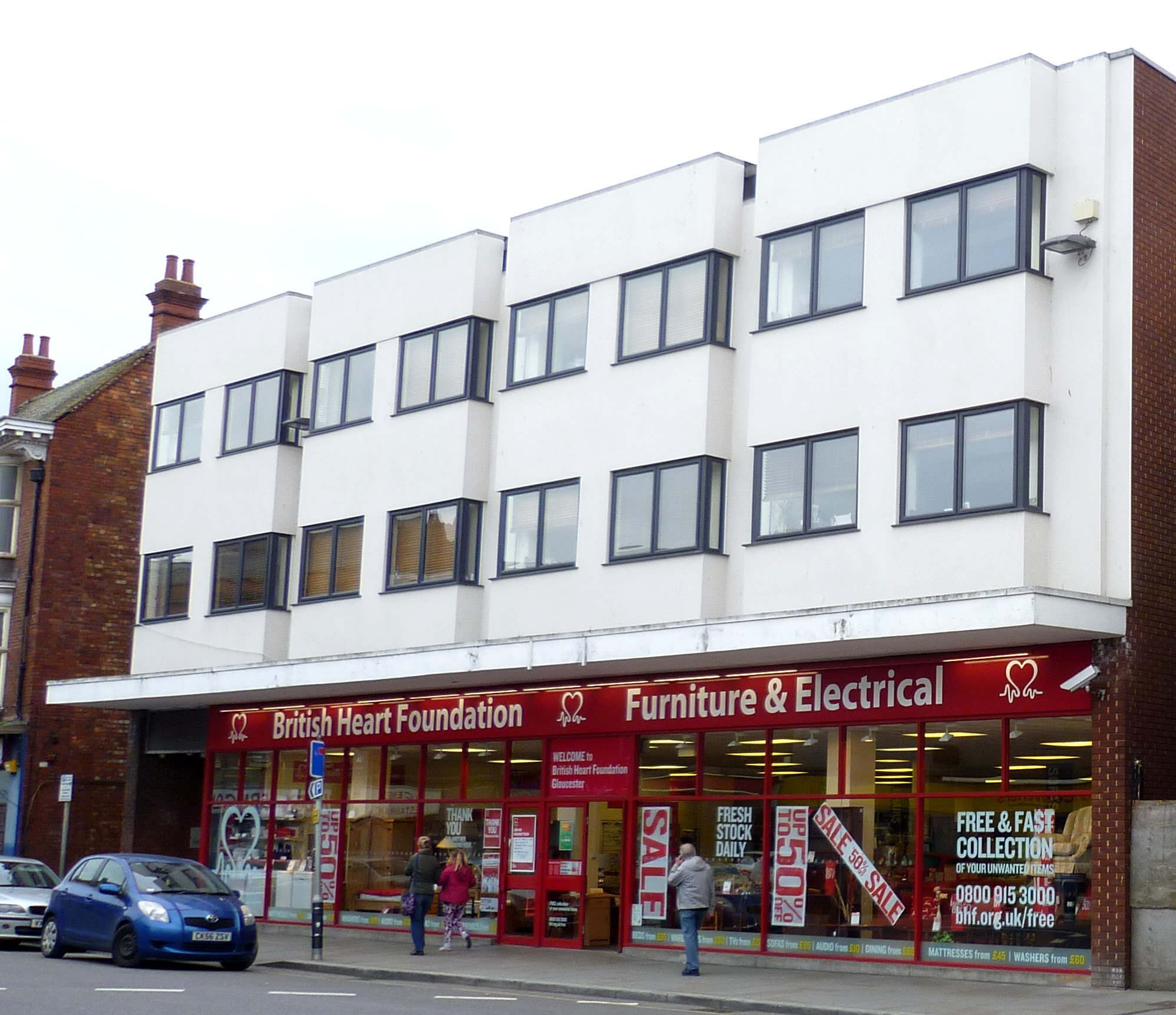 British Heart Foundation, Gloucester